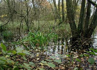 Landscape near Beder, Århus, Denmark with iris-plants in November.